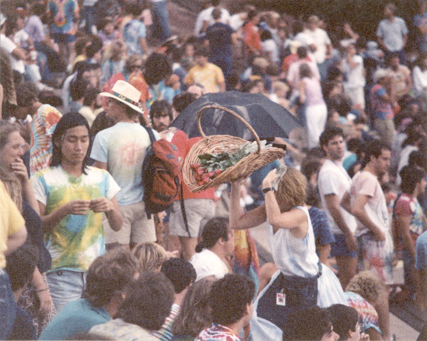 A Peaceful day with kindness in the air with a deadhead girl selling roses to an "are you kind" deadhead crowd at a Grateful Dead Concert